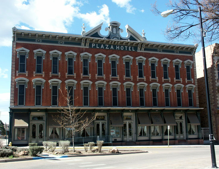 Plaza Hotel, located at 230 Plaza in Las Vegas, New Mexico.